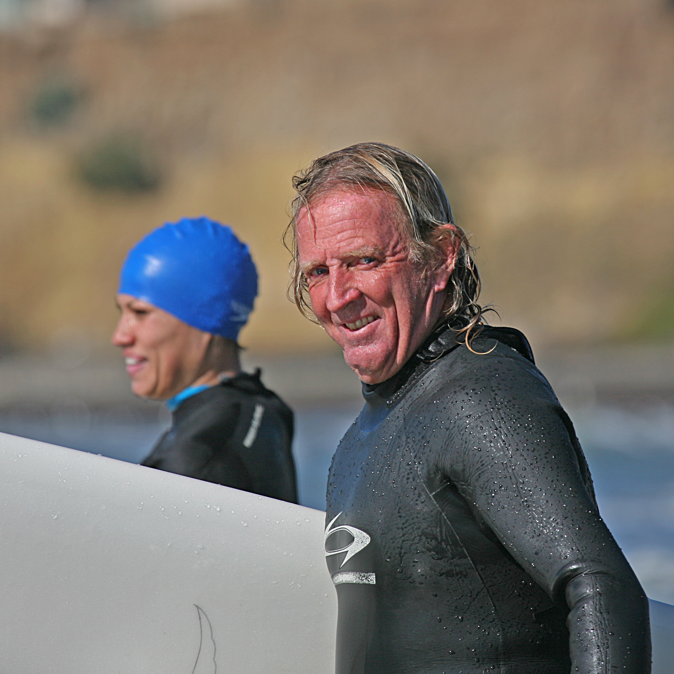 Skip Frye, surfing legend from San Diego, California in 2007